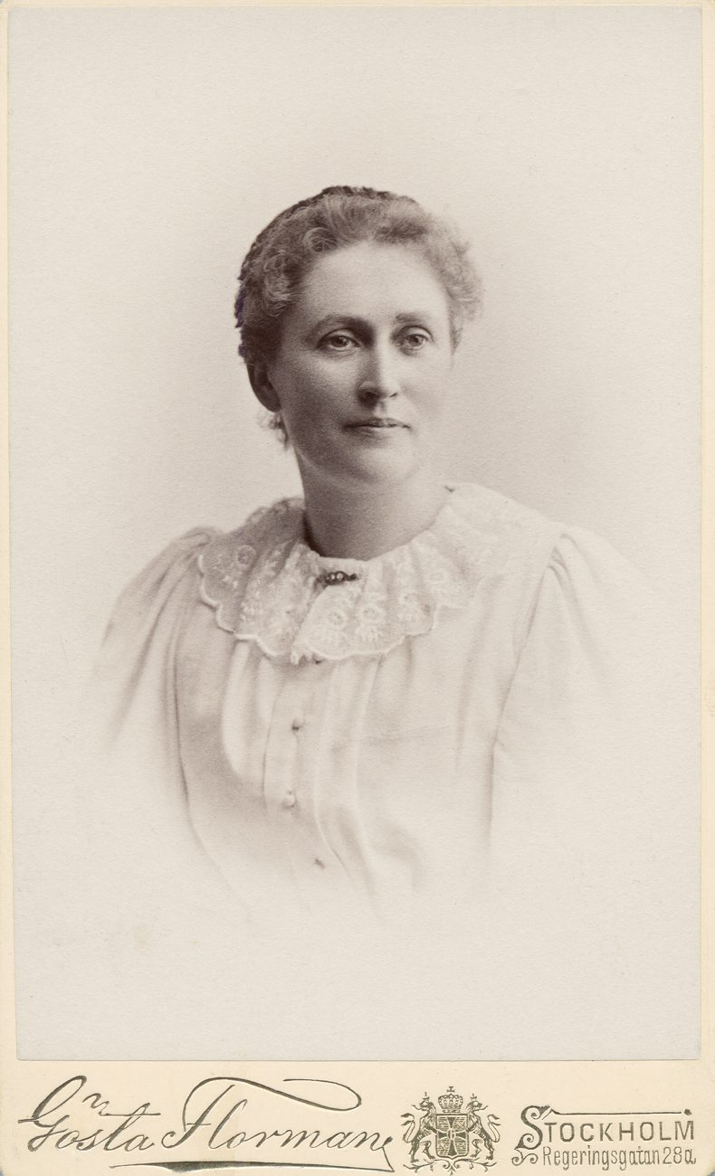 Portrait of Gurli Linder. Swedish writer and feminist.